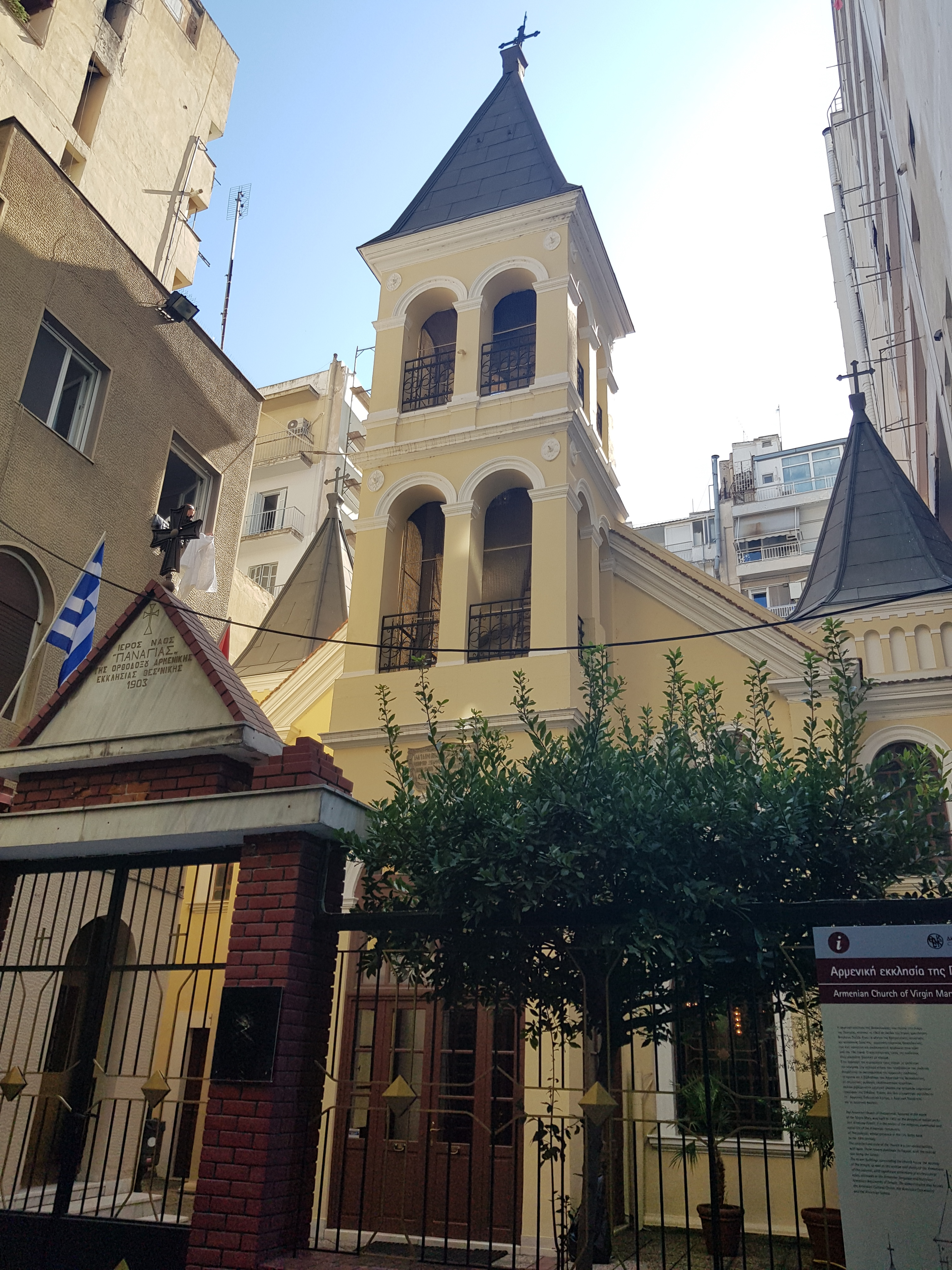 Armenian Church of Thessaloniki Built in 1903, architect Vitaliano Poselli (1838-1918)